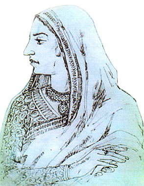 This is the portrait of Educationist and Writer Nawab Faizunnesa